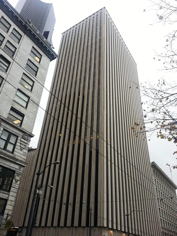 View of Pacific building, Seattle. Looking Southeast.